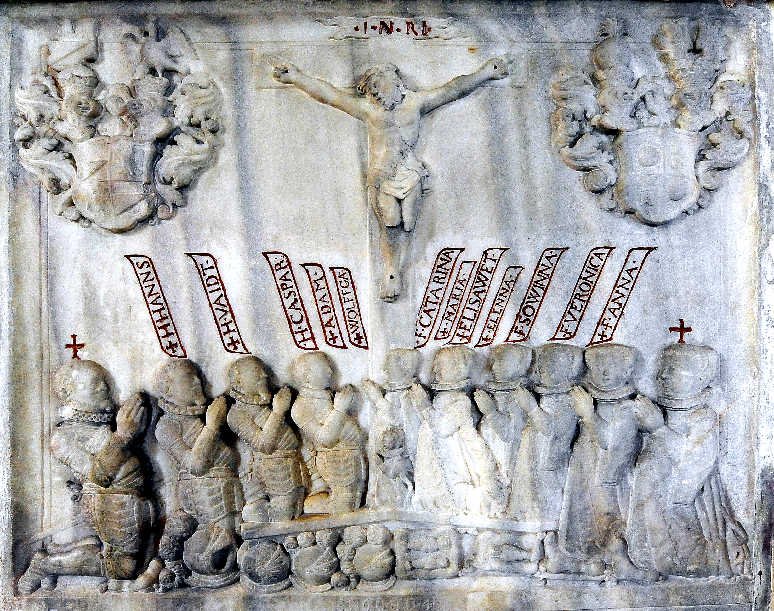 Stone relief and memorial plaque for the noble family von Neuhaus from the year 1604 inside the parish church Saint Martin at Gurnitz, market town Ebenthal, district Klagenfurt Land, Carinthia, Austria, EU